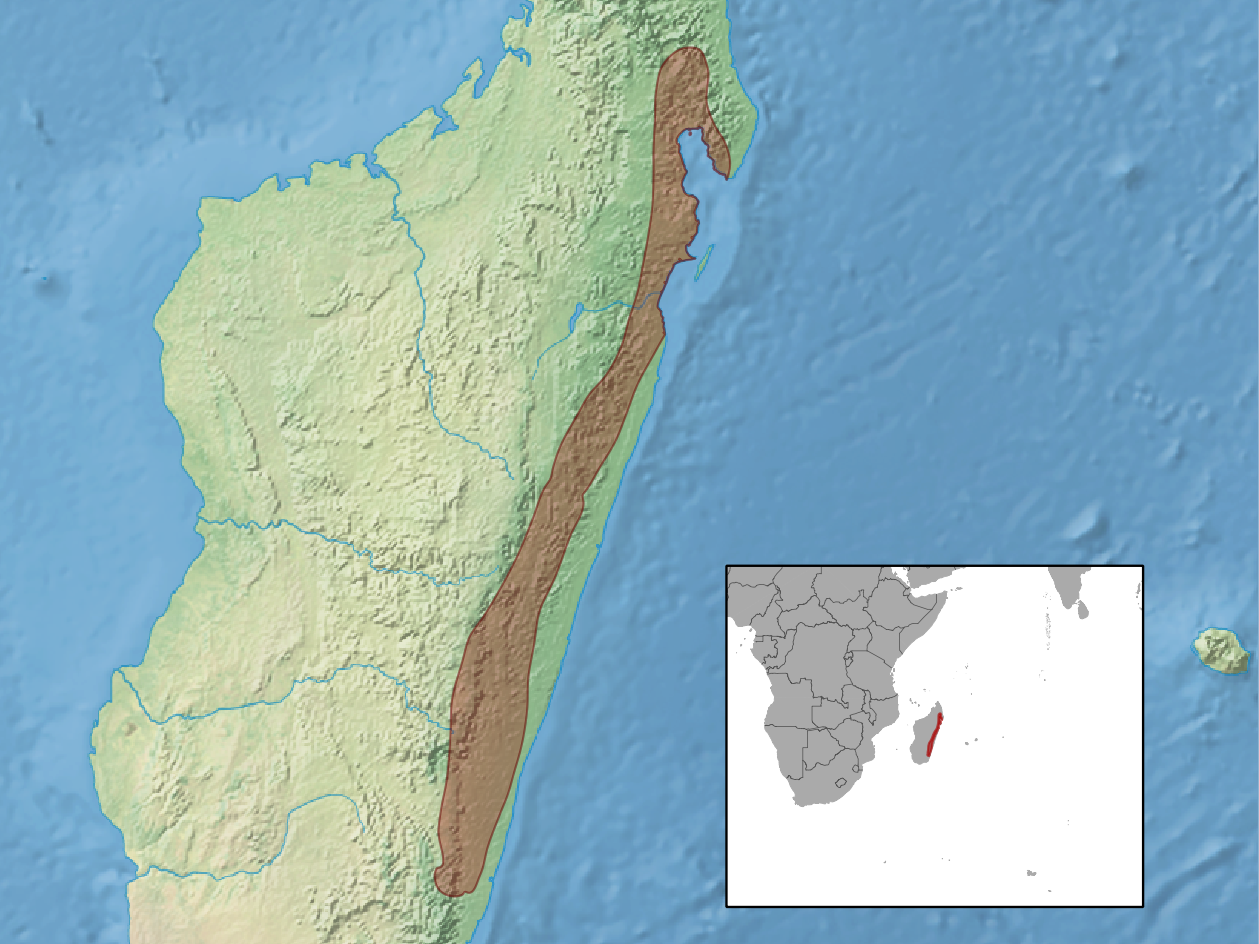 geographic distribution of Amphiglossus frontoparietalis